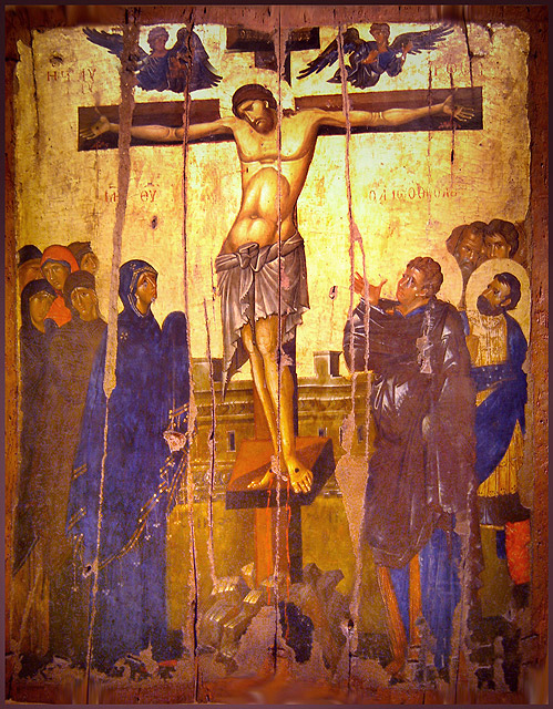 Icon of Crucifixion in the Byzantine and Christian Museum in Athens. 14th century.